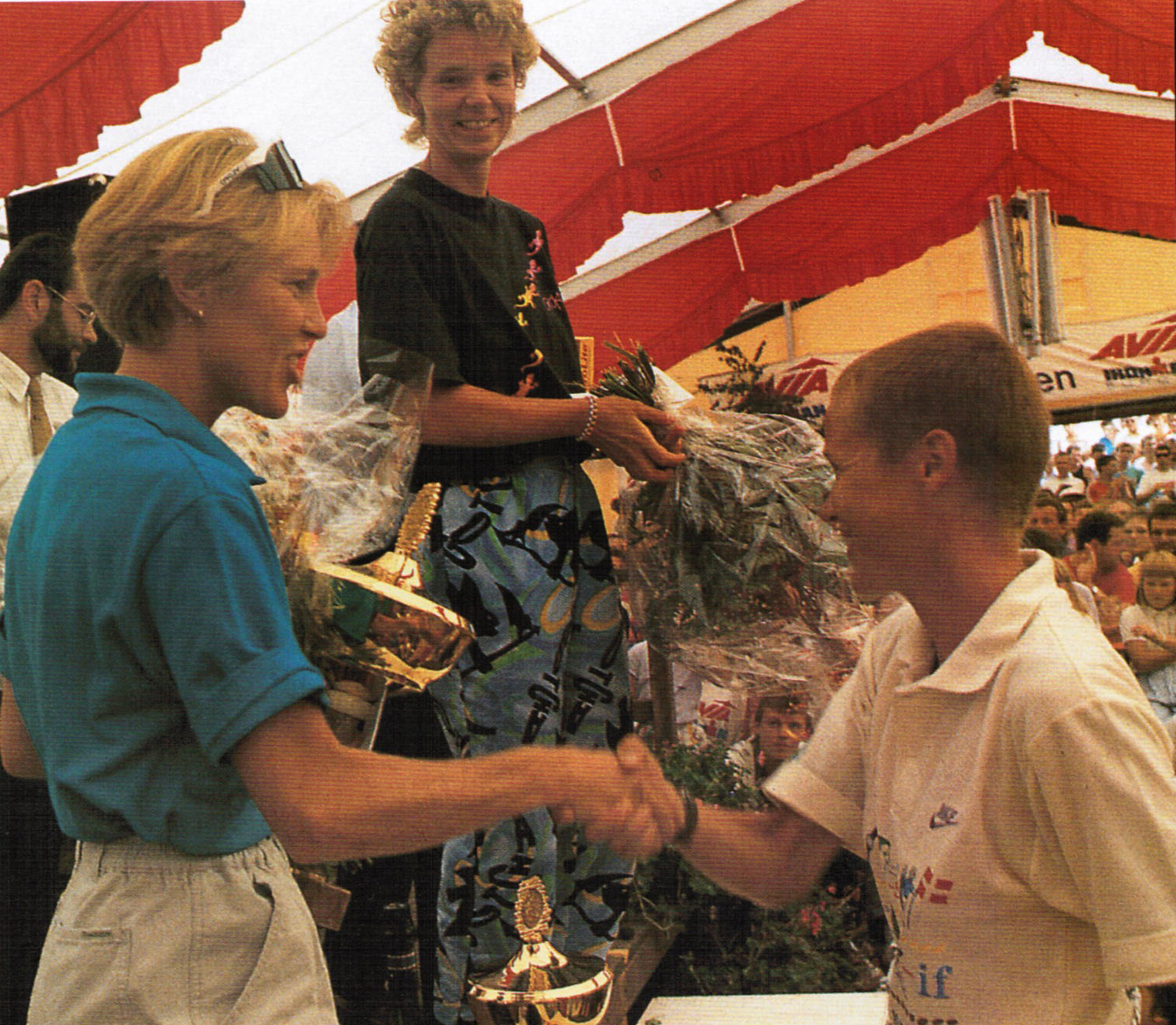 Ironman Europe 1988, Roth, Germany